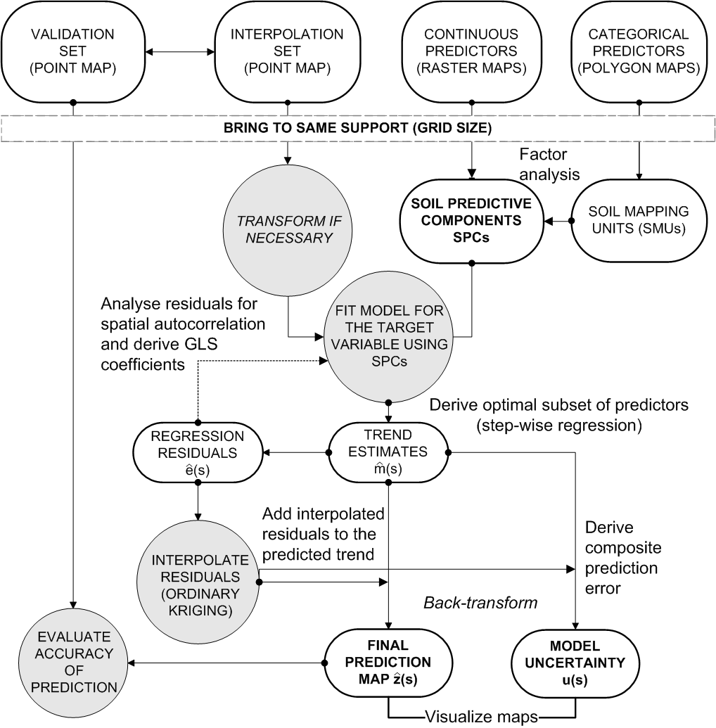 After Hengl et al. (2004; Geoderma)